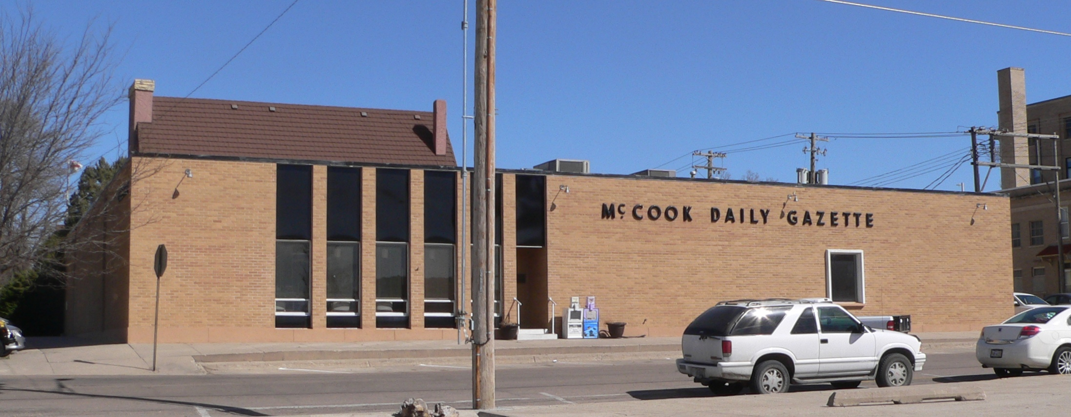 Building currently occupied by McCook Daily Gazette, at northeast corner of West First Street and E Street in McCook, Nebraska; seen from the south, across E.